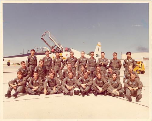 Iraninan pilot student in us 1350